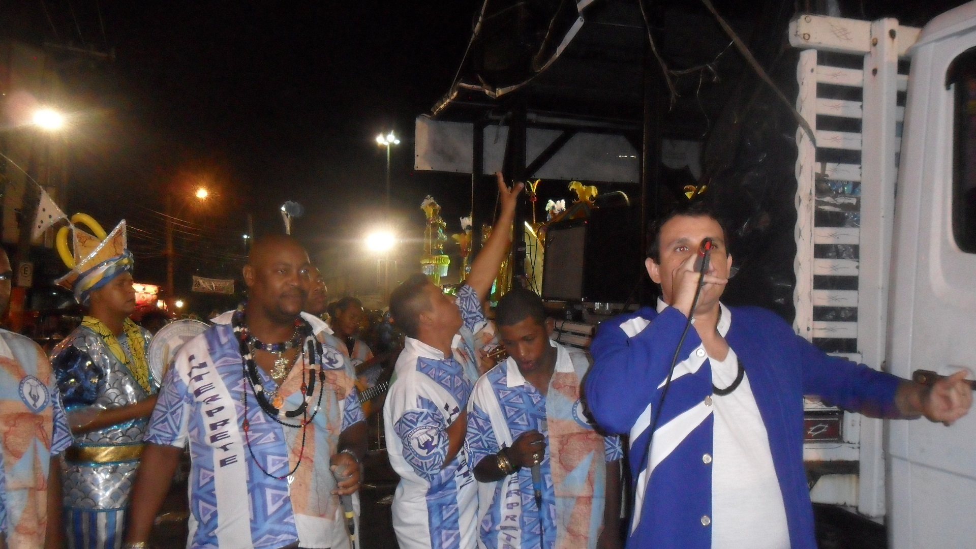 GRES Acadêmicos do Sossego